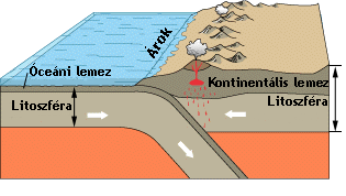 Schematics of subduction. Hungarian version, image based on Image:Oceanic-continental convergence Fig21oceancont.gif